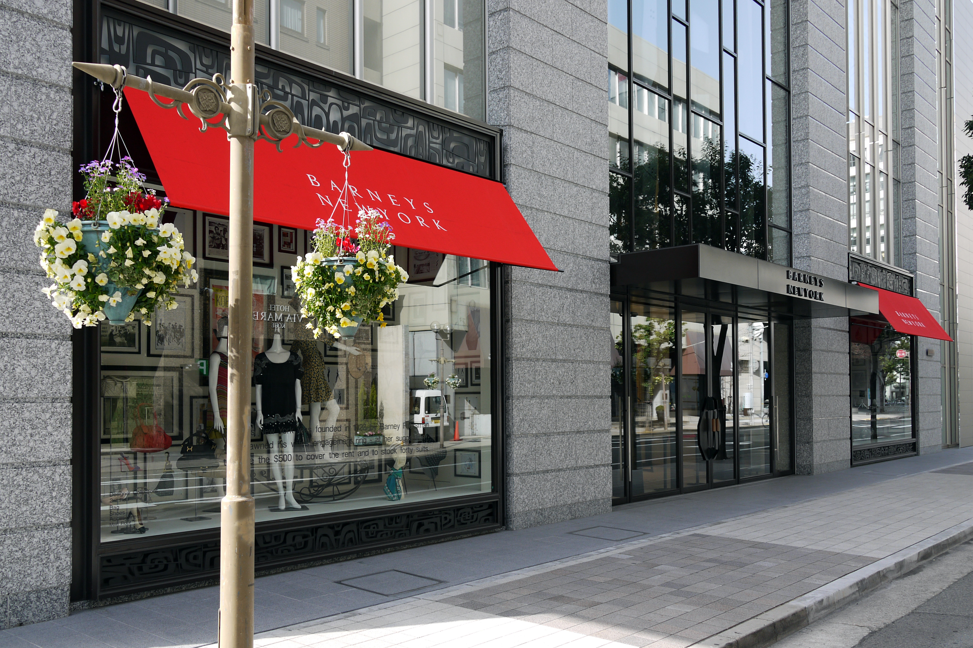 Barneys New York at The Old Settlement Hall of No.25, Kobe in Kobe, Hyogo prefecture, Japan